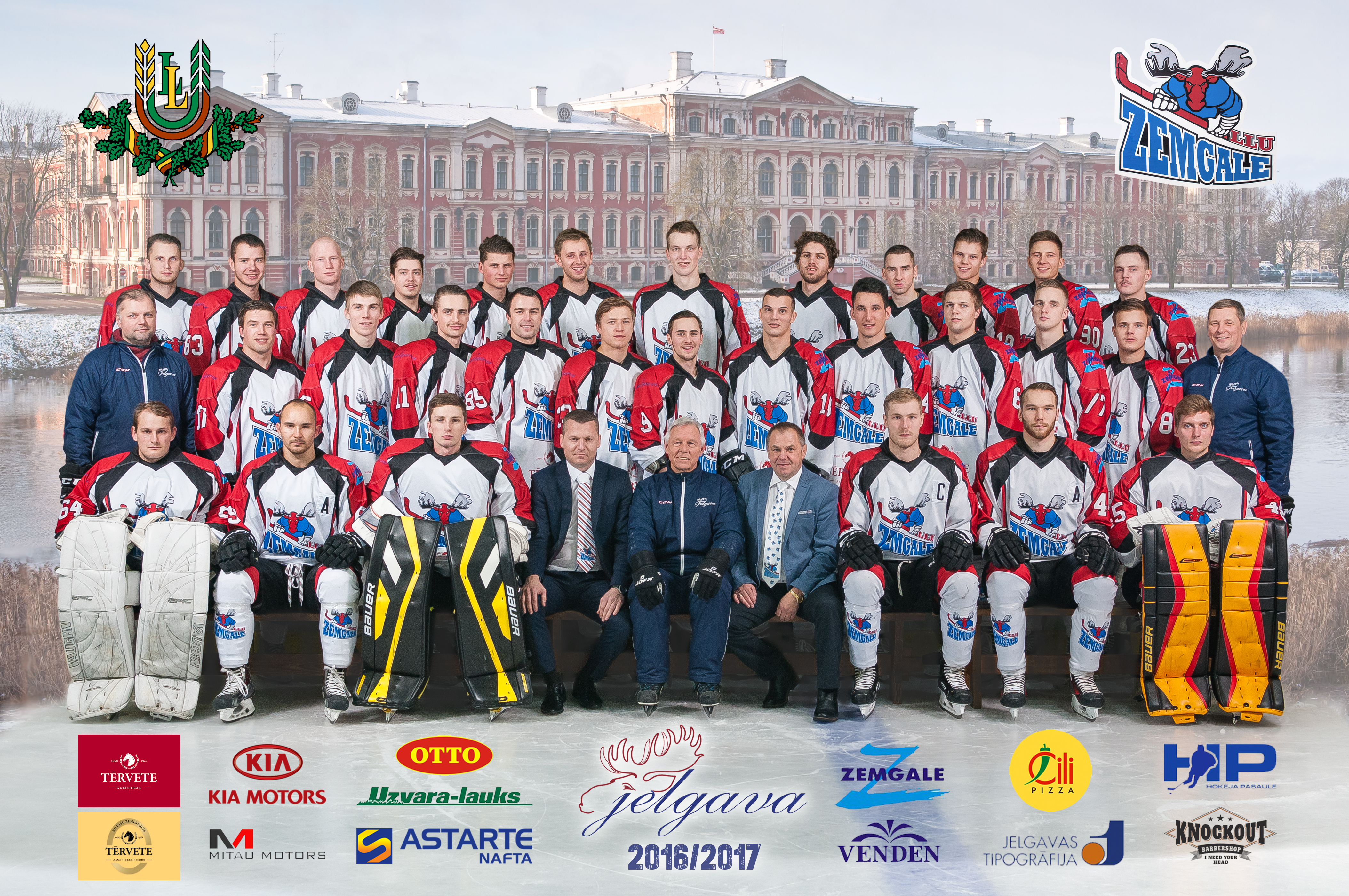 Hockey club "Zemgale/LLU" 2016/2017 team photo